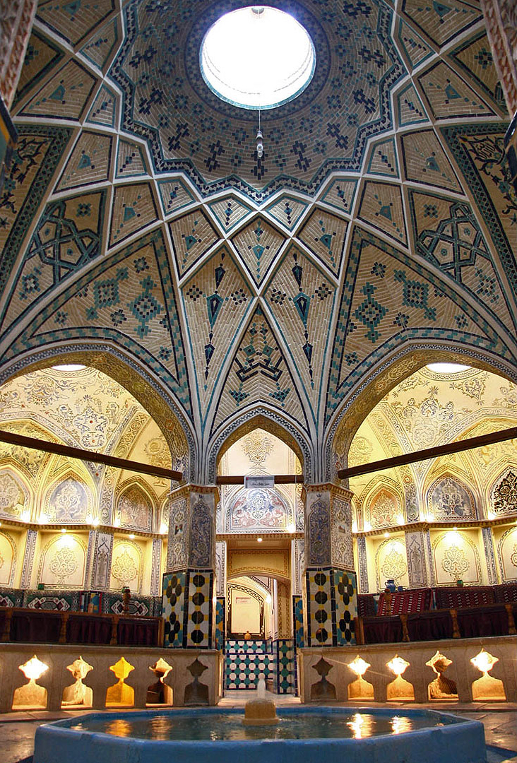 Soltan Amir Ahmad Bath House, Kashan, Iran